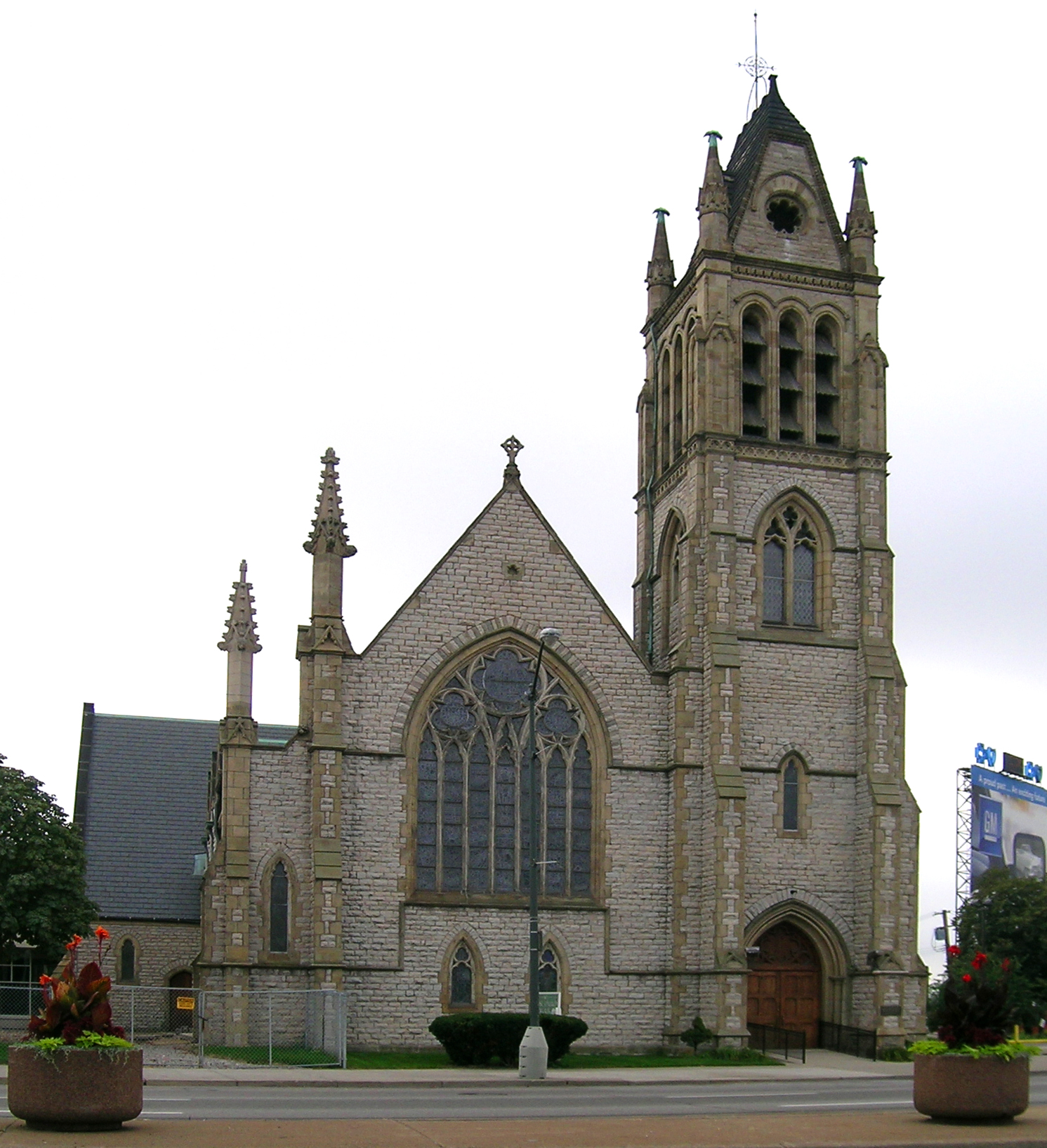 Christ Church, Detroit MI from across Jefferson Ave.